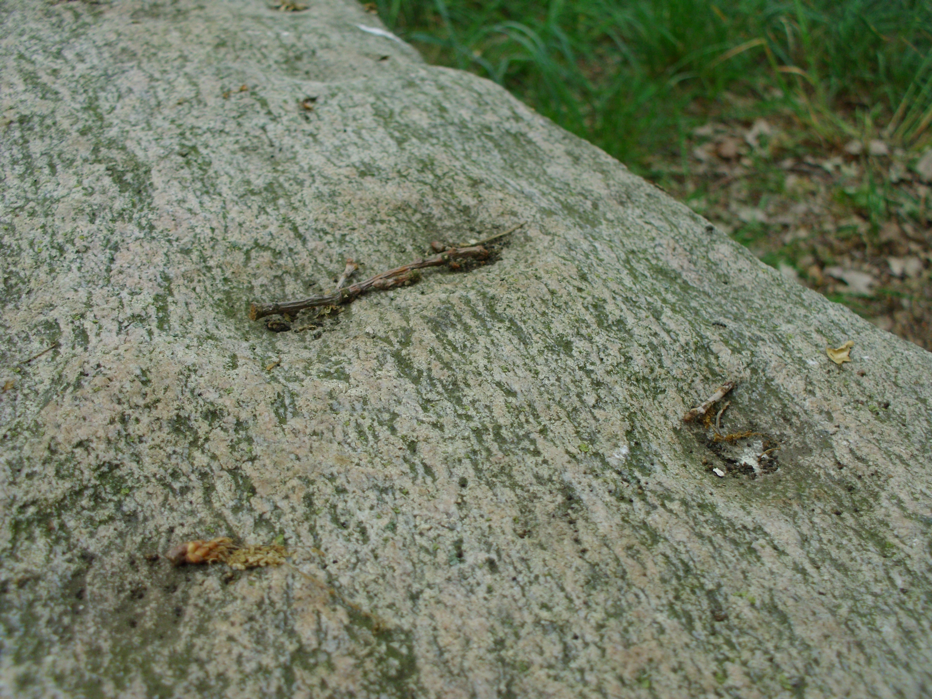 close-up of the cover plate of the Bargloyer Steinkiste